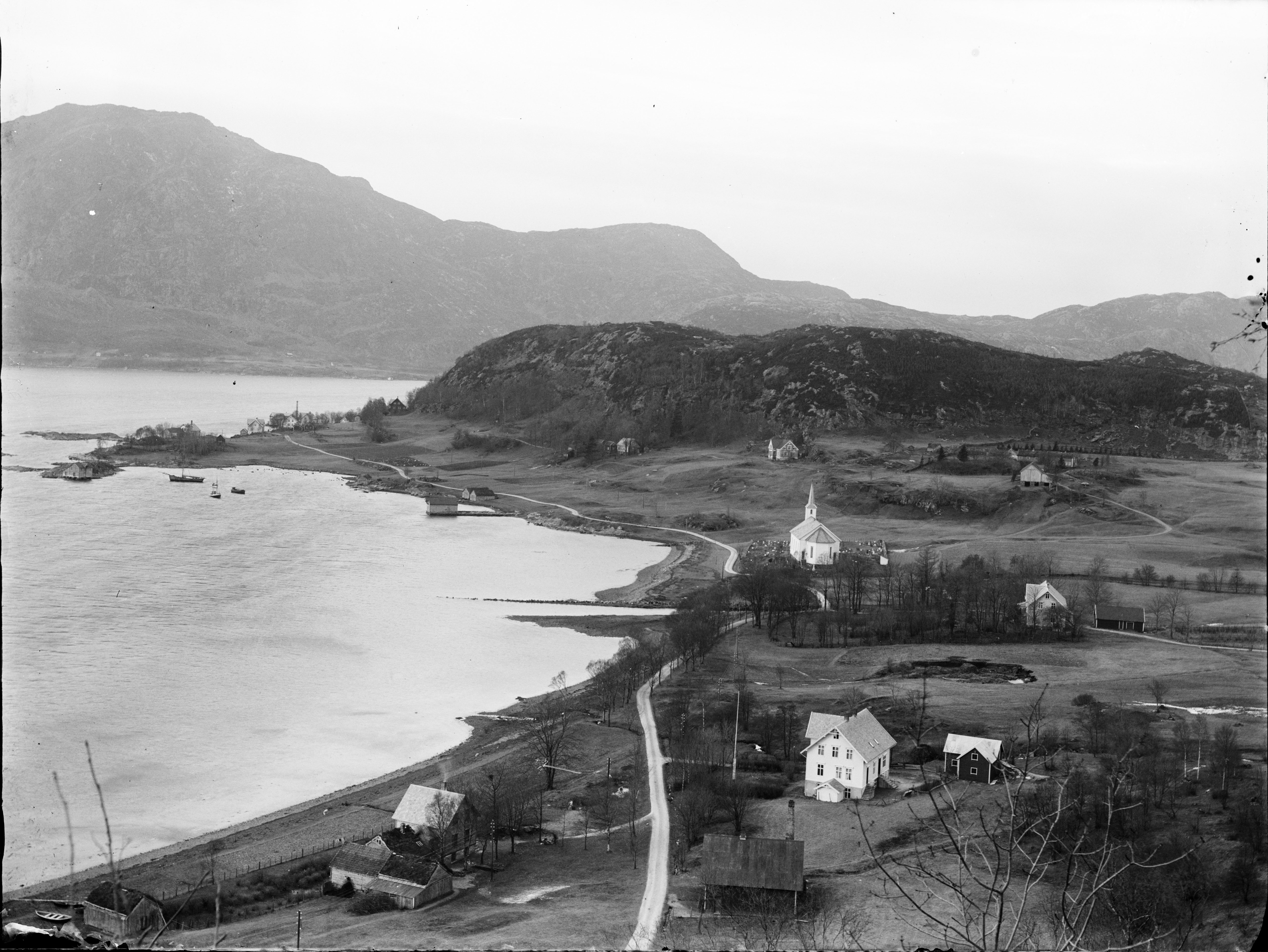 View of Askvoll ca 1907-1923. Photographer: Paul Stang. Image ID: SFFf-1989091.162761